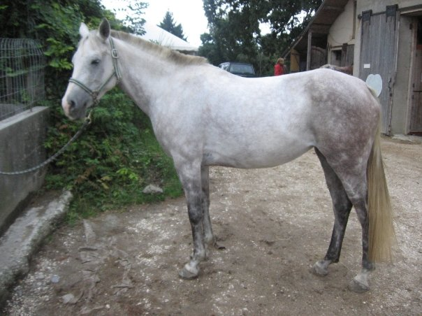 Arabian mare